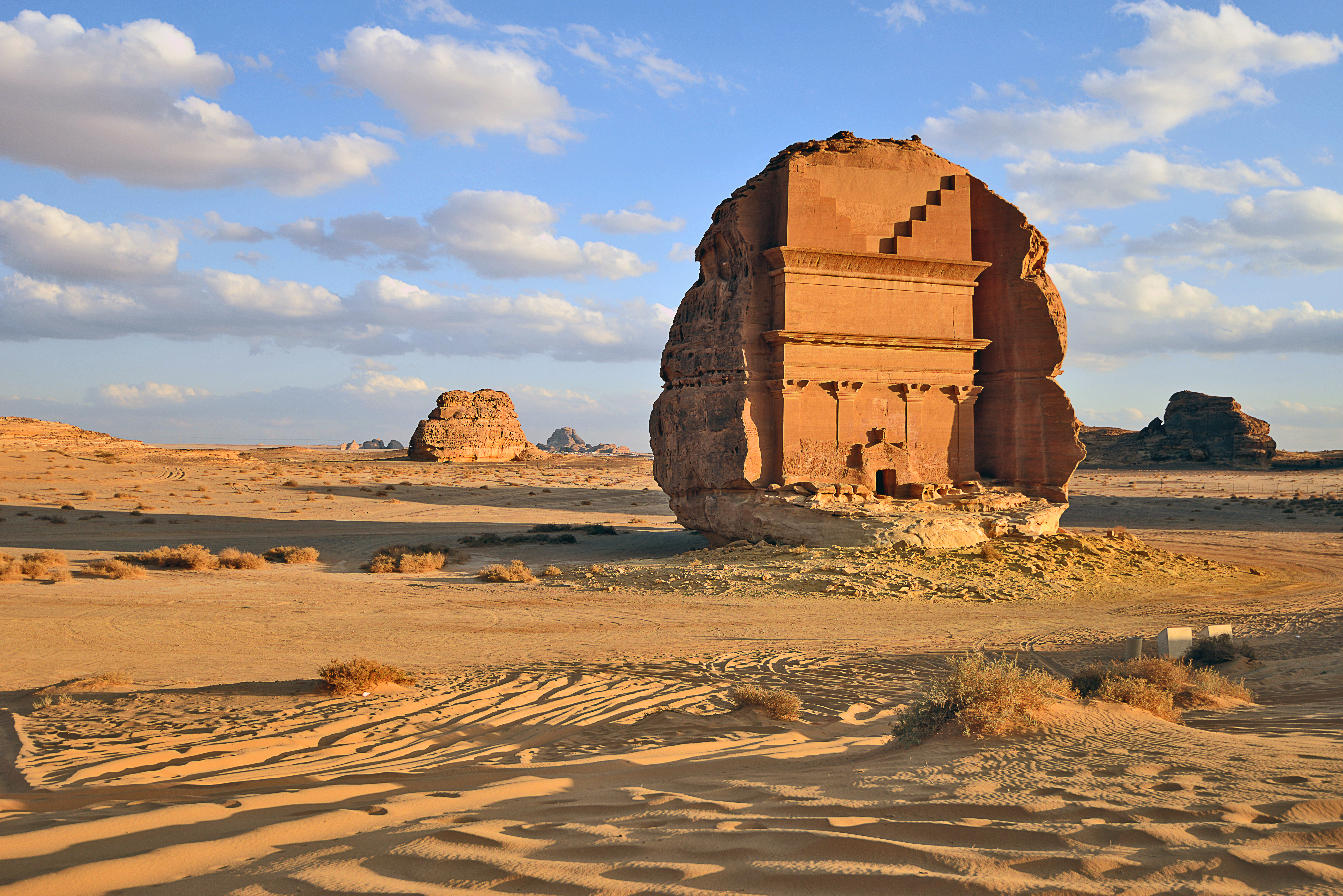 Mada'in Saleh is an archaeological site located in the Sector of Al-`Ula within the Province of Al-Madinah, the Hejaz, Saudi Arabia. A majority of the vestiges date from the Nabatean kingdom (1st century AD). I believe and I'm sure I took that picture in Madain Saled on February, 19, 2017. and I'm responsible of that picture, it has copyright of Ahmad Hasanat